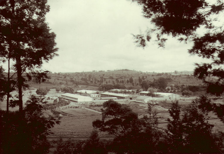 The Bata Shoe Company, Limuru, Kenya